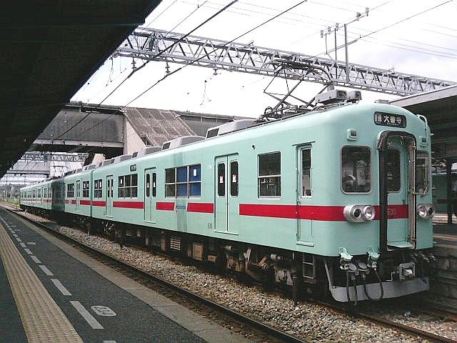 Nishi Nippon Railroad 600 series EMU (630-680-631-681) at Nishitetsu Tenjin Omuta Line Nishitetsu-Futsukaichi Station in Chikushino, Fukuoka, Japan